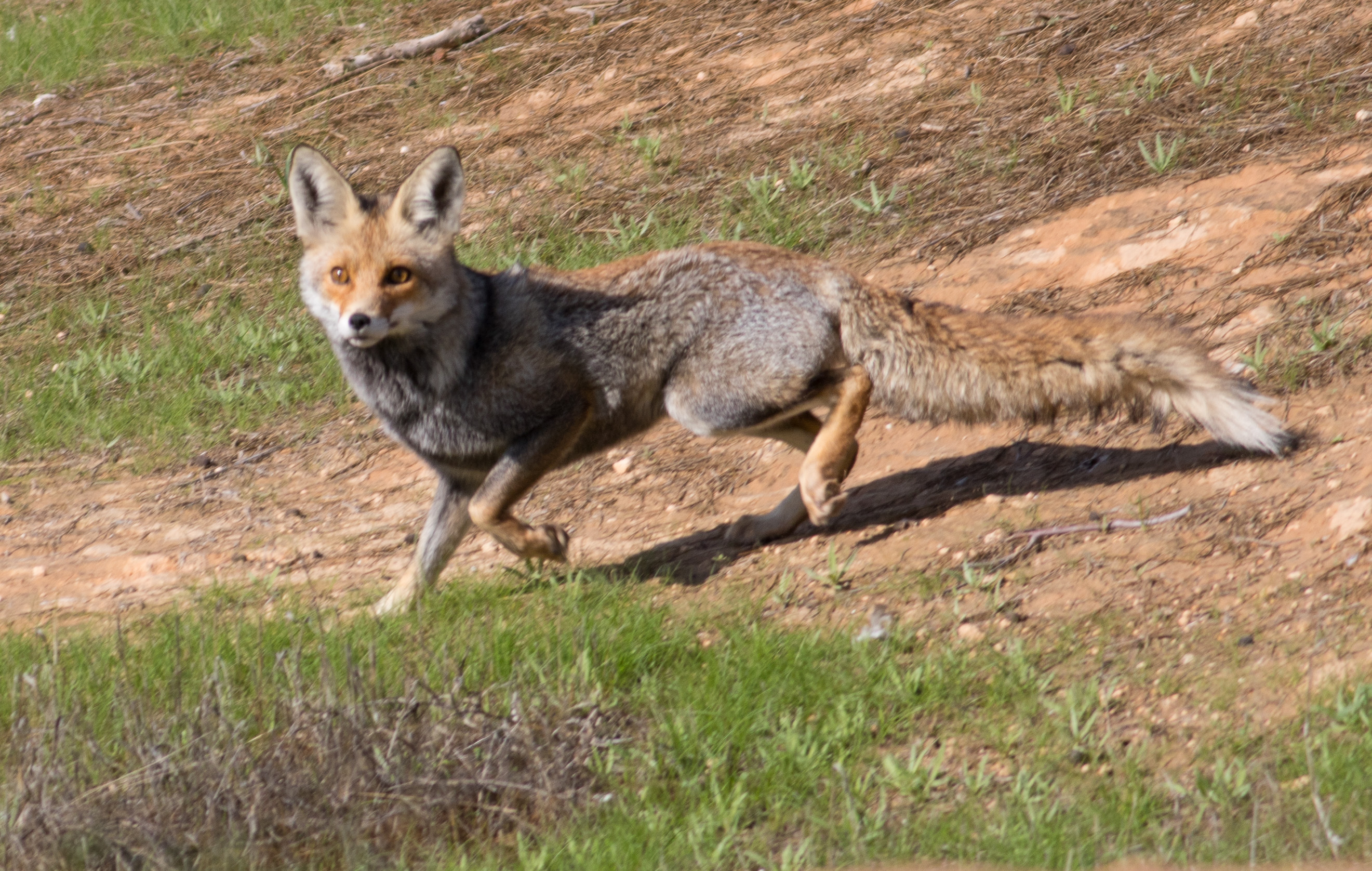 Red fox, (Subspecie: Palestinian fox V. v. palaestina) Eshel HaNasi, near Beersheba, Israel